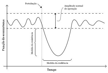 Example of ecosystem behavior over a disturbance.